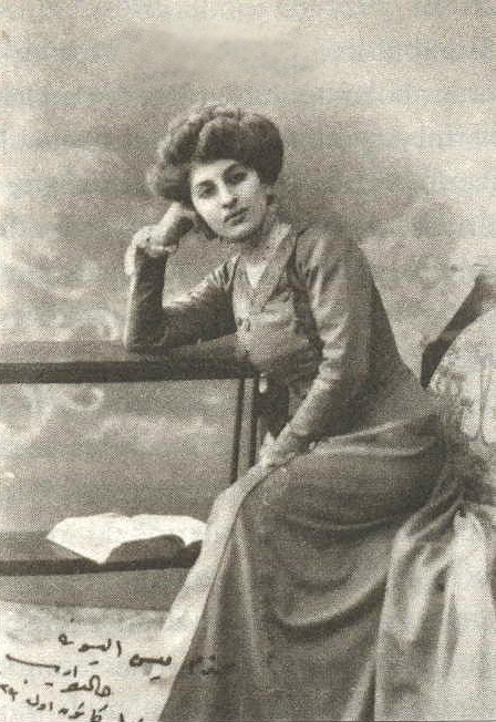 photo of novelist and feminist political leader Halide Edib Adıvar